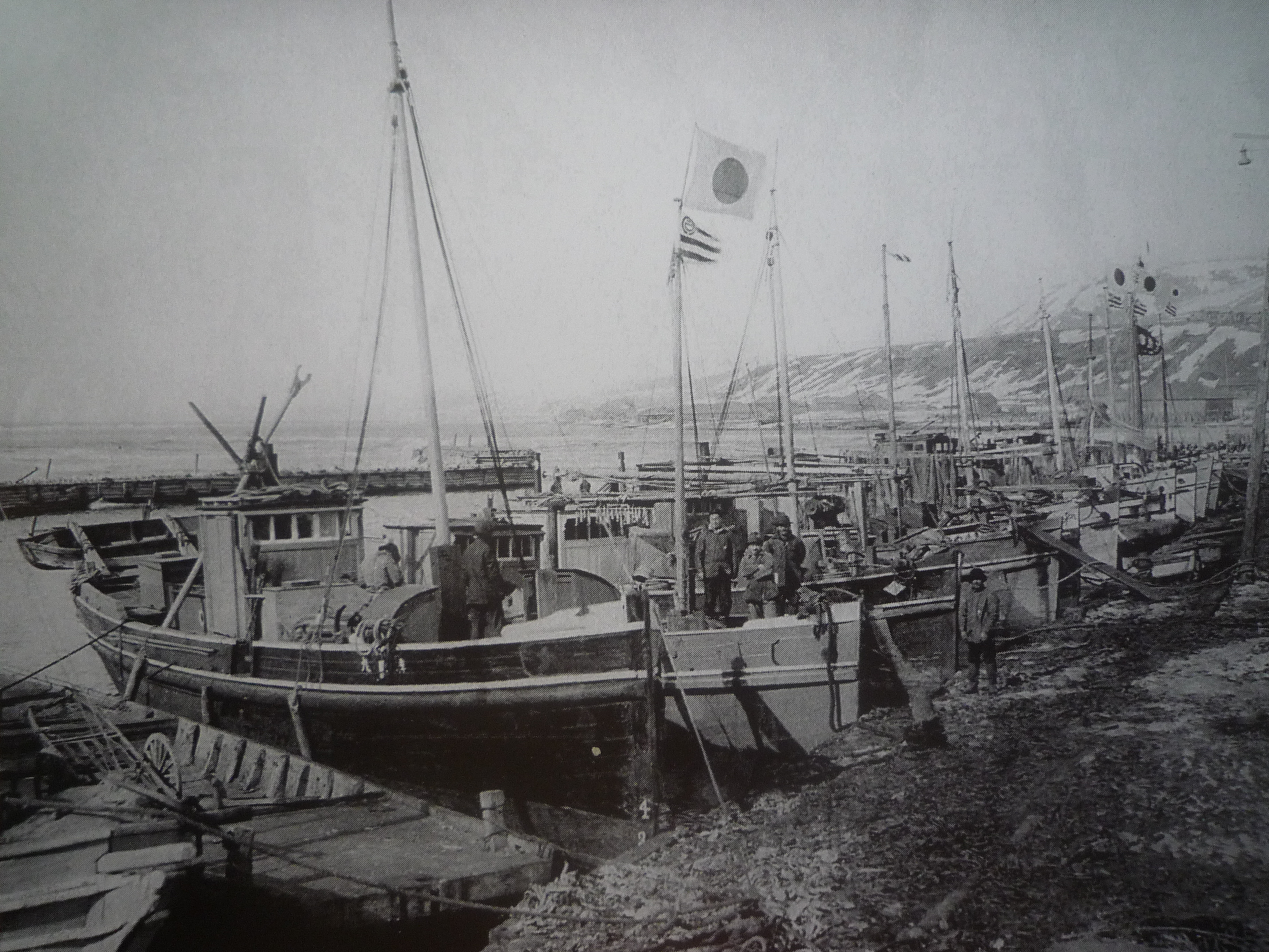 Fish port (Maoka, 1930s years)